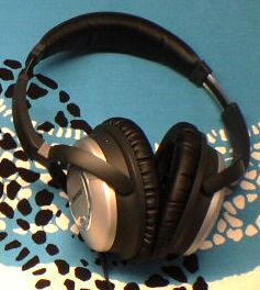 Bose Quiet Comfort 2 headphones